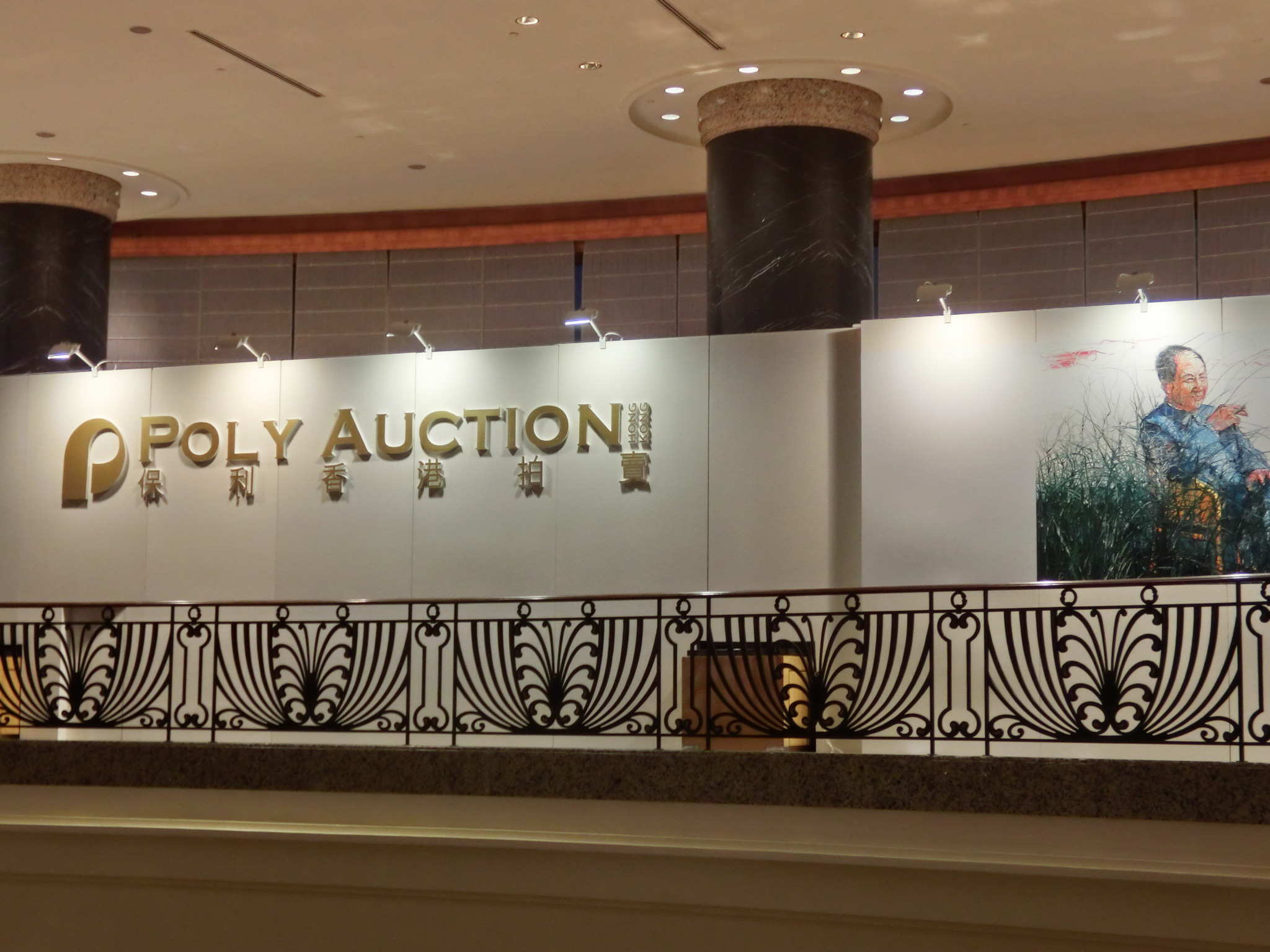 China Poly Group Corporation, 保利集團, Auction pre-view exhibition in Grand Hyatt Hotel, Wan Chai North, Hong Kong